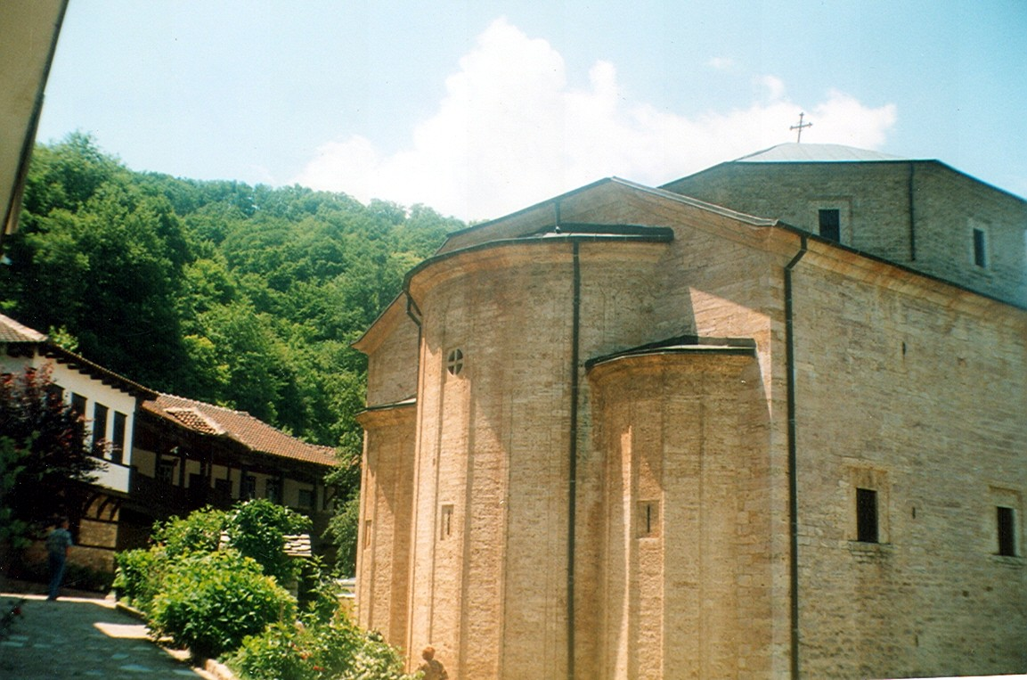 Orthodox Church of the Immaculate Mother of God, town of Kičevo, Republic of Macedonia